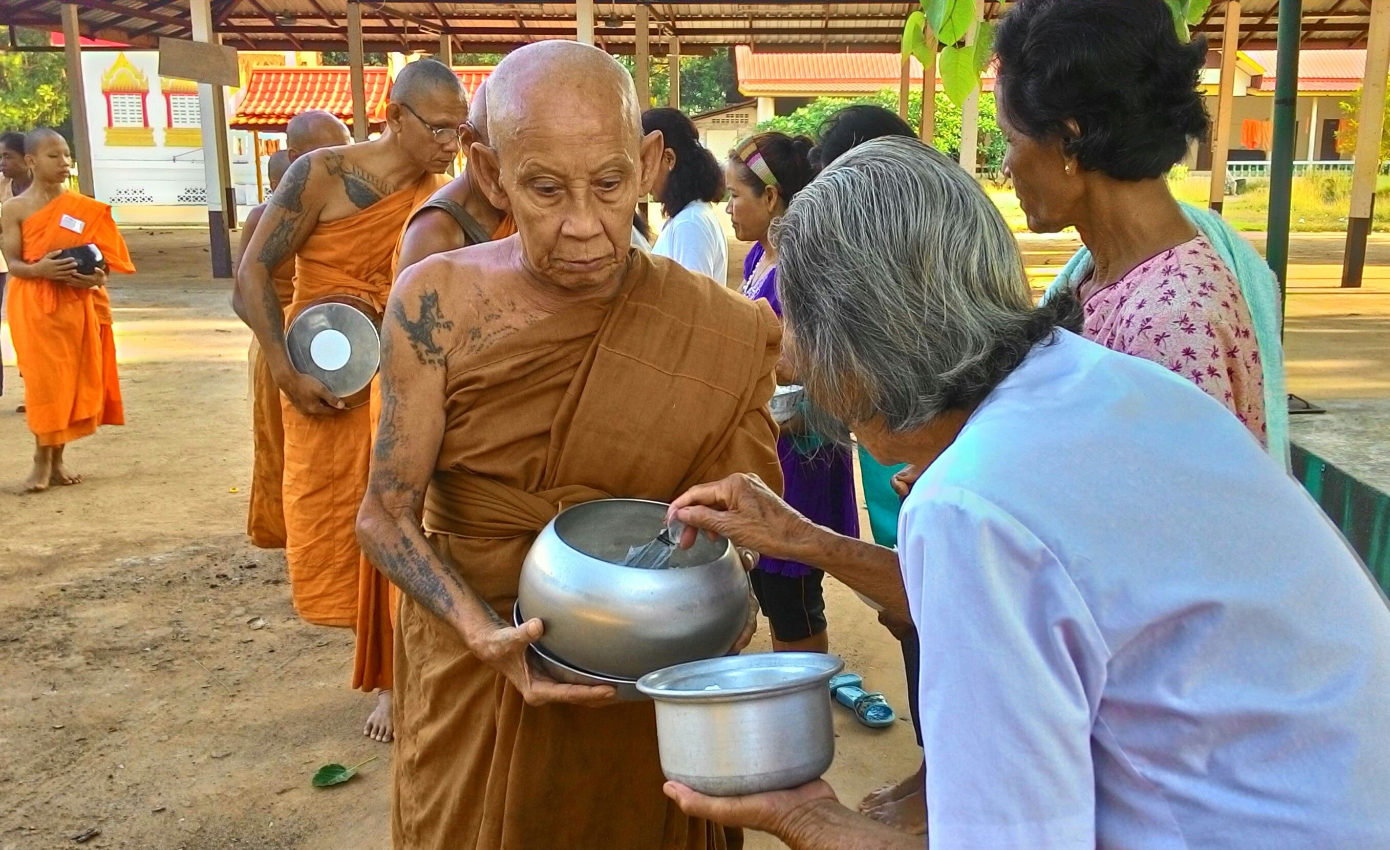 Monk in Thailand